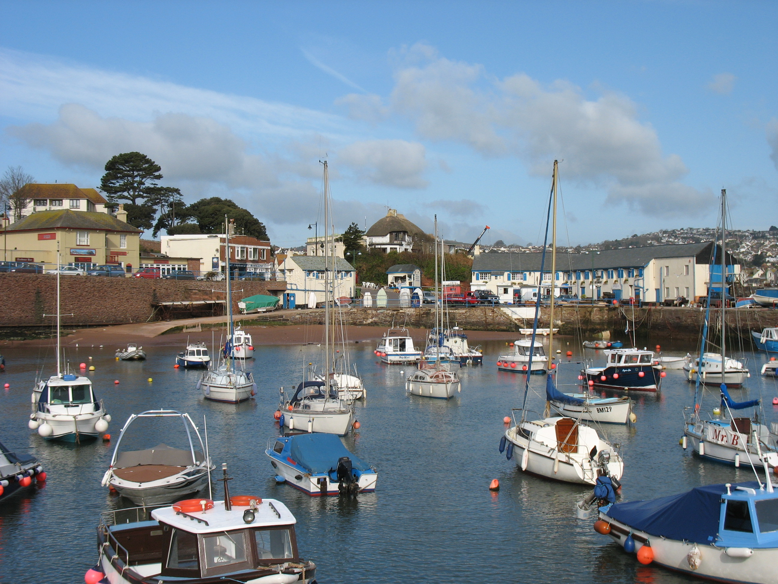 The harbour of Paignton; Der Hafen von Paignton (Torbay, Devon, England)